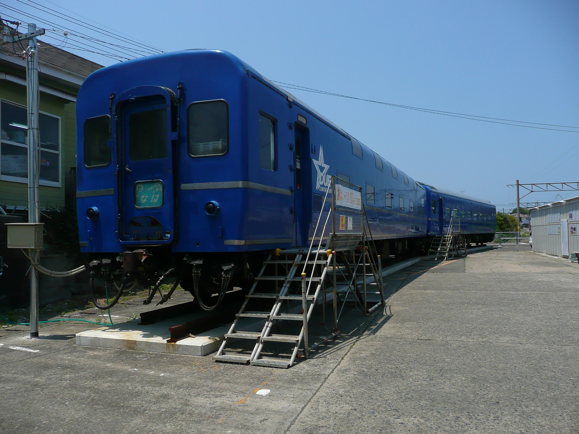 Sleeper Train Naha (Akune Station - Akune City, Kagoshima, Japan)